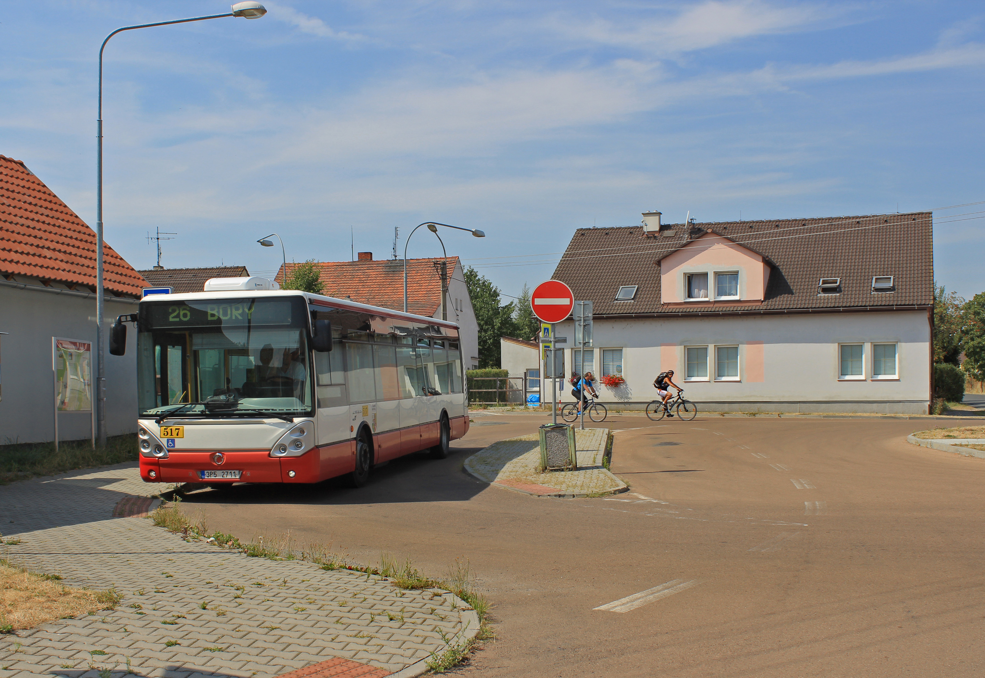 Bus turnabout in Lhota, part of Plzeň, Czech Republic.